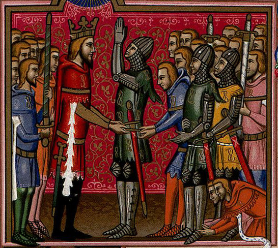 Miniature of the investiture of a knight. 19th-century copy of a manuscript miniature of c. 1352 (BNF Fr 4274 fol. 8v). From the statutes of the "Order of the Knot" (L’ordre du Nœud ou ordre du Saint-Esprit au Droit Désir), founded 1352 by King Louis of Naples. Original minature: 17th-century facsimile